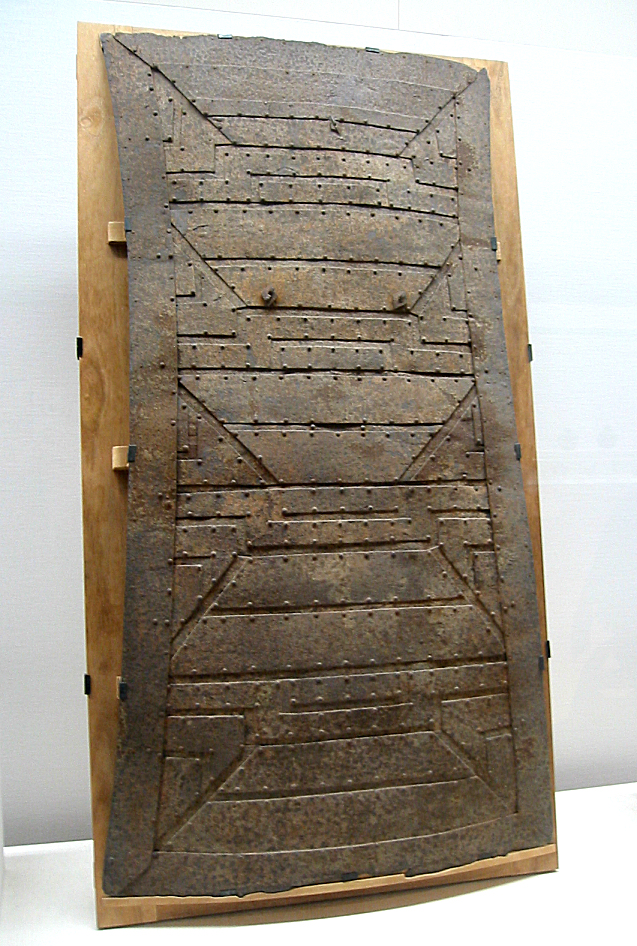 Iron shield of the Kufun period, Nara, 5th century.